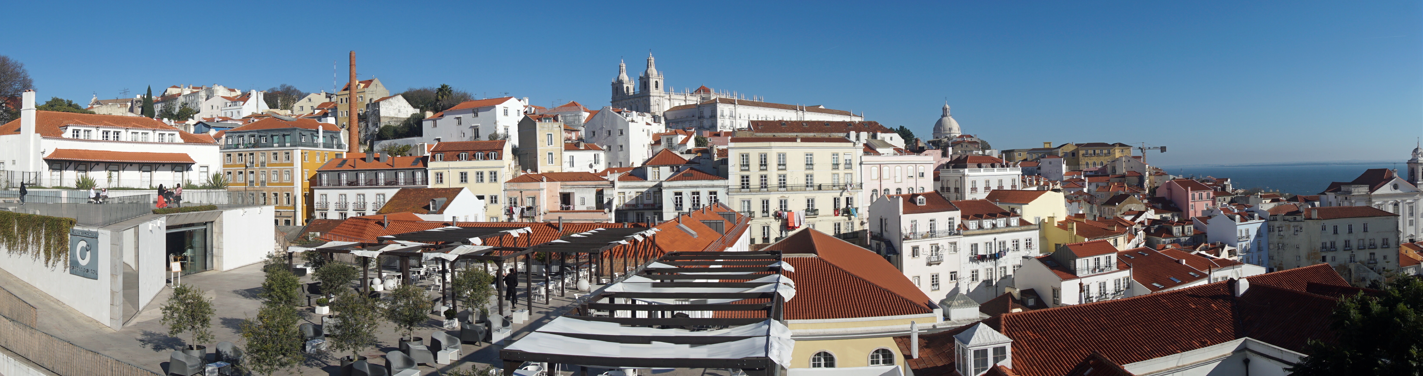 Panorama of Alfama from Largo das Portas do Sol, Lisboa